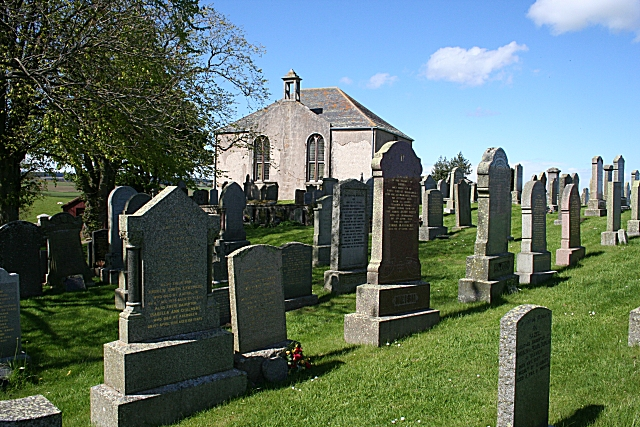 Ordiquhill Kirkyard The kirkyard is still in use. The kirk is of an unusual design - rectangular, with neither spire nor tower.